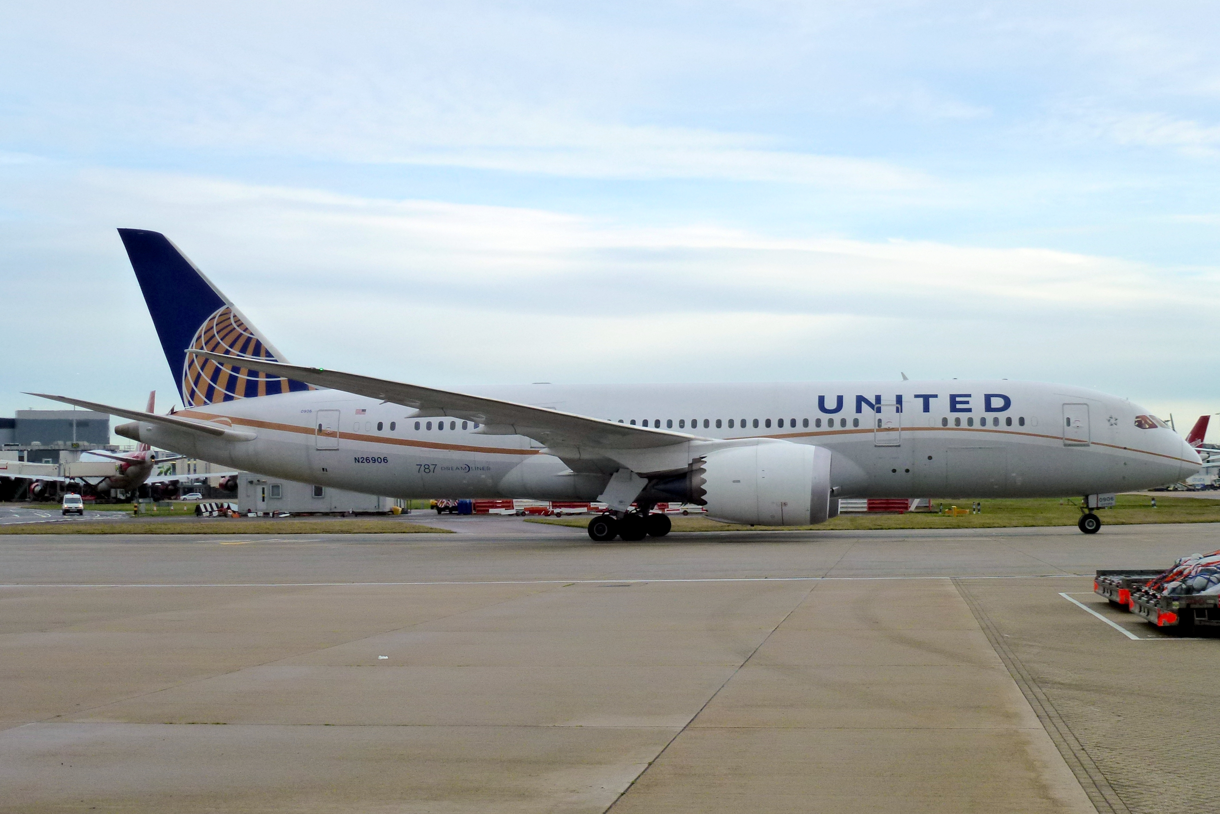 N26906 Boeing 787 United Airlines heading for T4 after vacating rwy 027R.